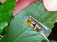 AgriHouse Leaf Sensor 2009